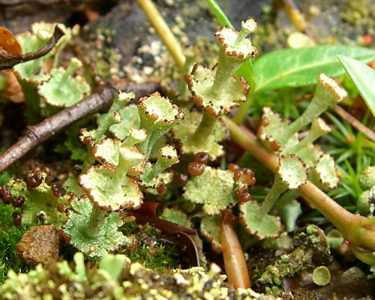 Scientific Name: Cladonia cervicornis ssp. verticillata (Hoffm.) Ahti Common Name: Ladder Lichen Certainty: positive (notes) Location: Southern Appalachians; Smokies; CabinCove Date: 20060706